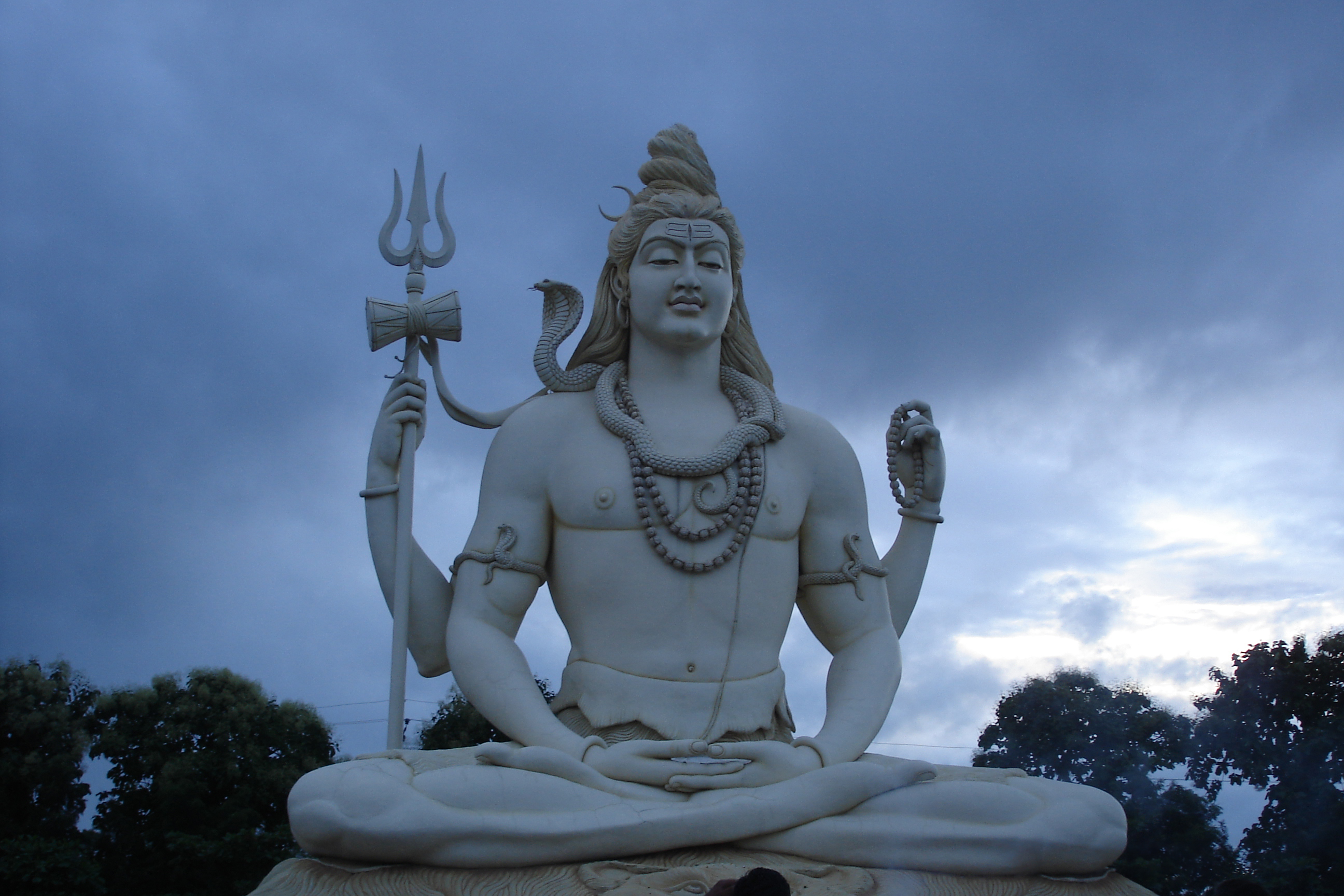 Shiv Statue at Kachnar City Jabalpur, Madhya Pradesh, India